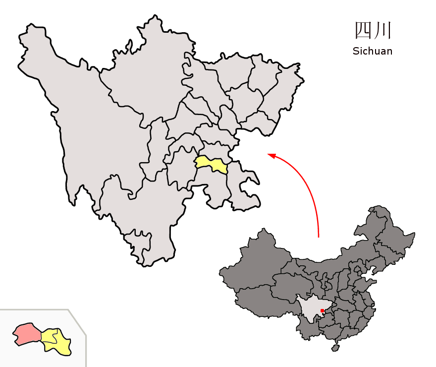 Location of Rong County (pink) and Zigong Prefecture (yellow) within Sichuan province of China Map drawn in november 2007 using various sources, mainly : Sichuan province administrative regions GIS data: 1:1M, County level, 1990 Sichuan Counties map from